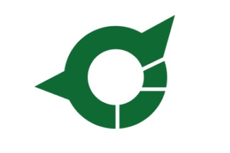 Flag of Tabuse Yamaguchi